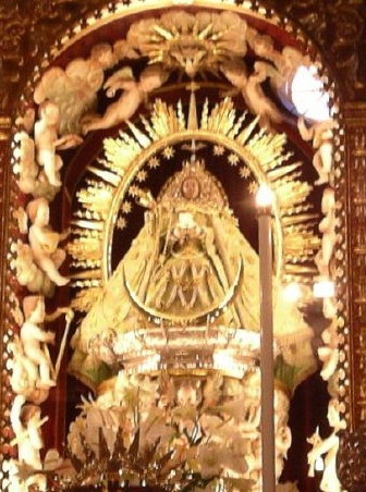 Virgen de las Nieves, Patrona de la Palma